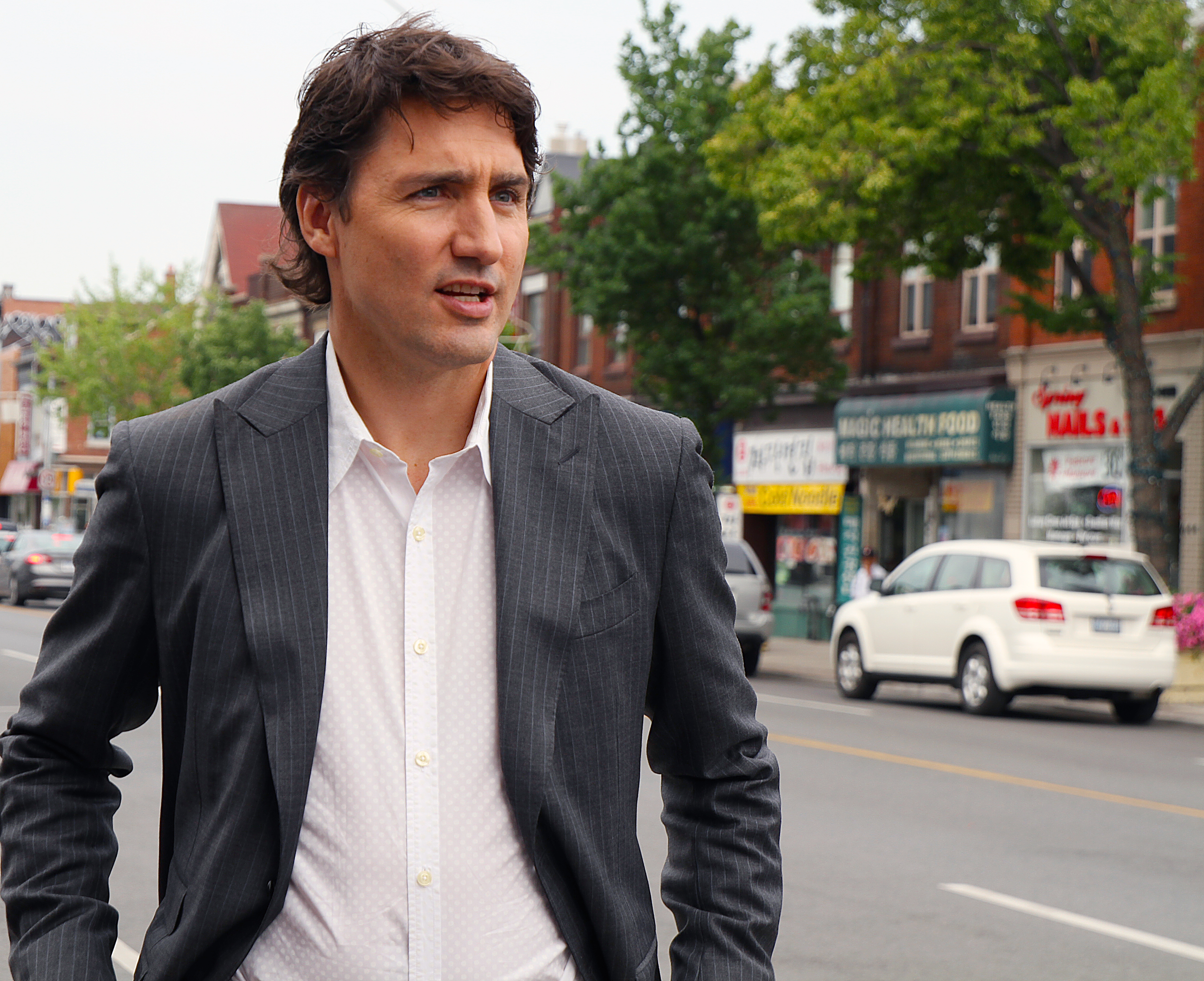 The Leader of the Liberal Party of Canada, Justin Trudeau, campaigning for Adam Vaughan in Toronto's Trinity-Spadina riding. The title of this photograph at the source is: Justin Trudeau.